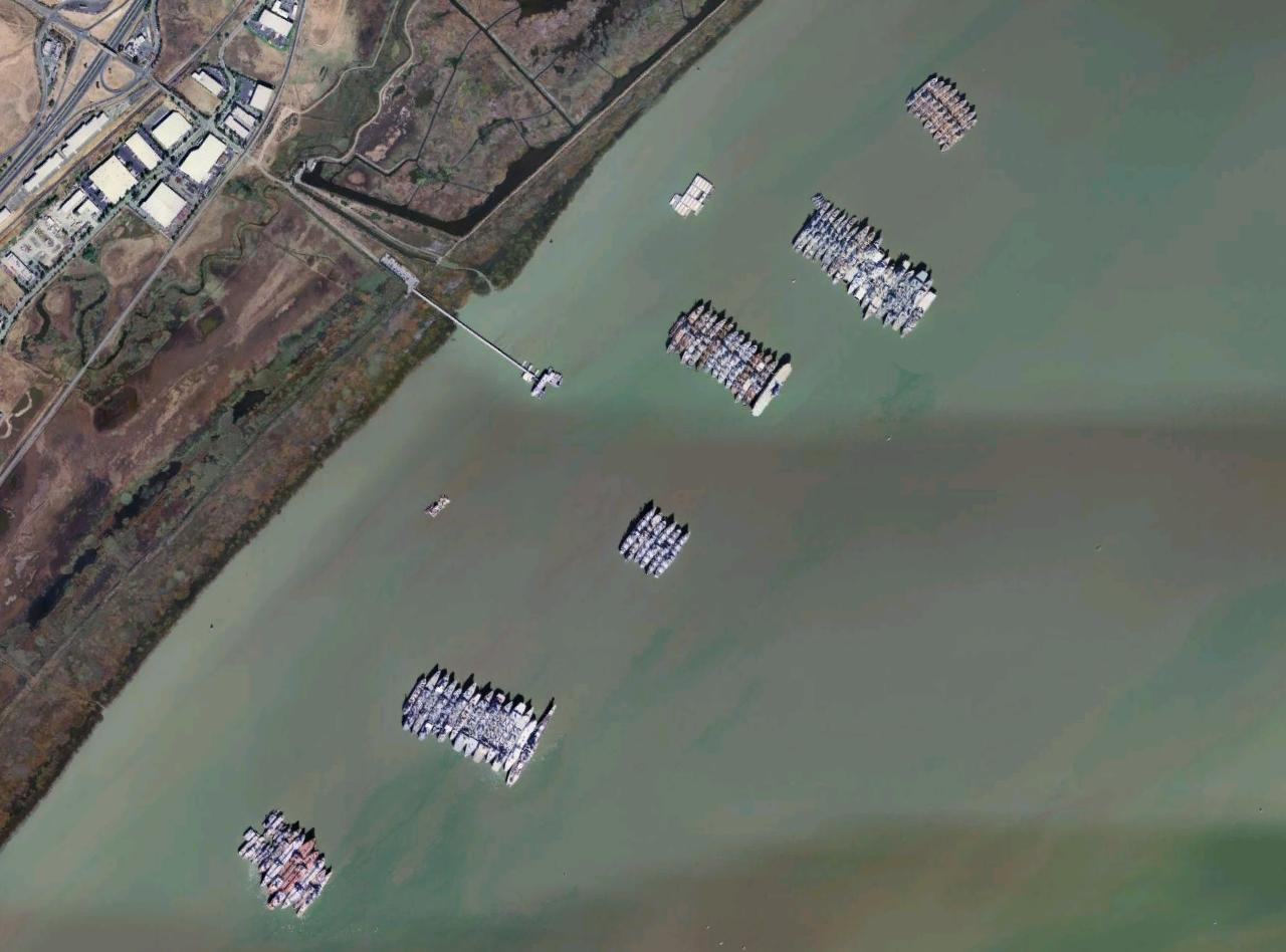 USGS aerial photo montage of "nests" of anchored USNR ships at the National Defense Reserve Fleet in Suisun Bay, California.